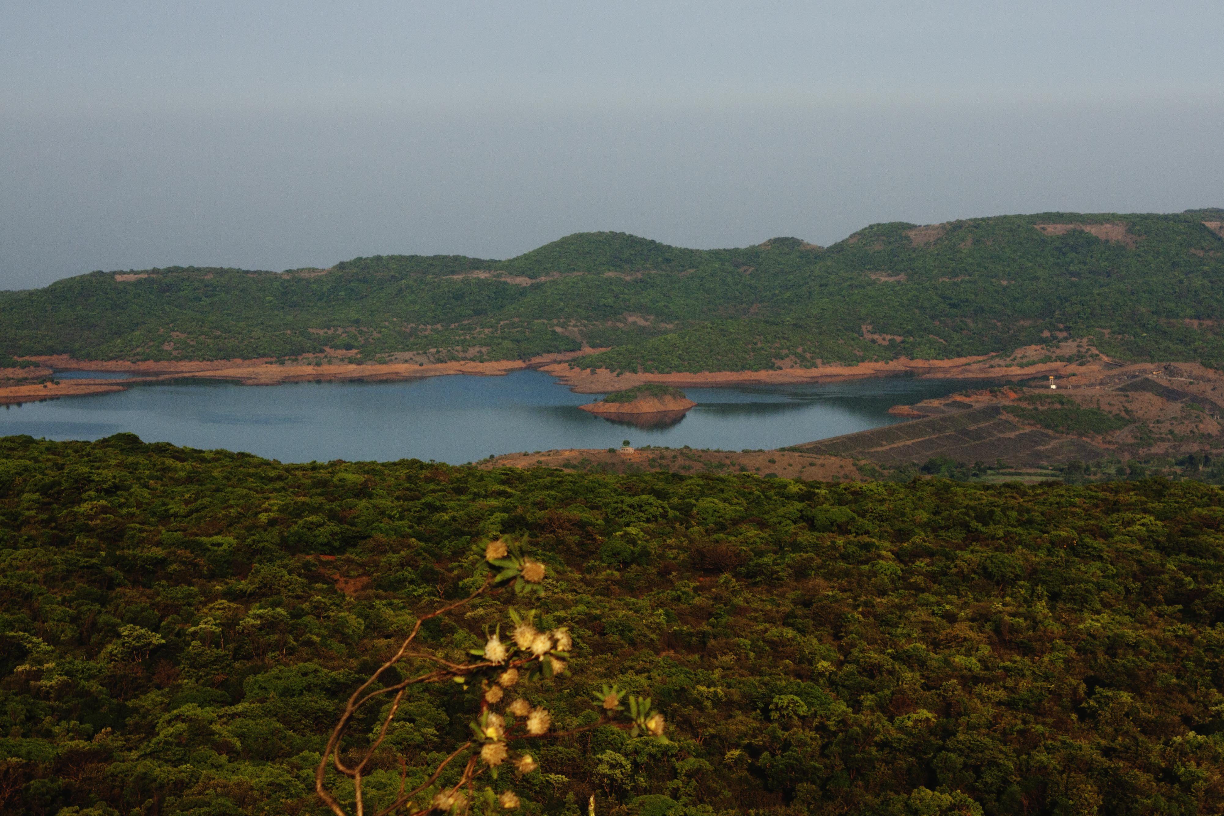 Lakhmapur backwaters